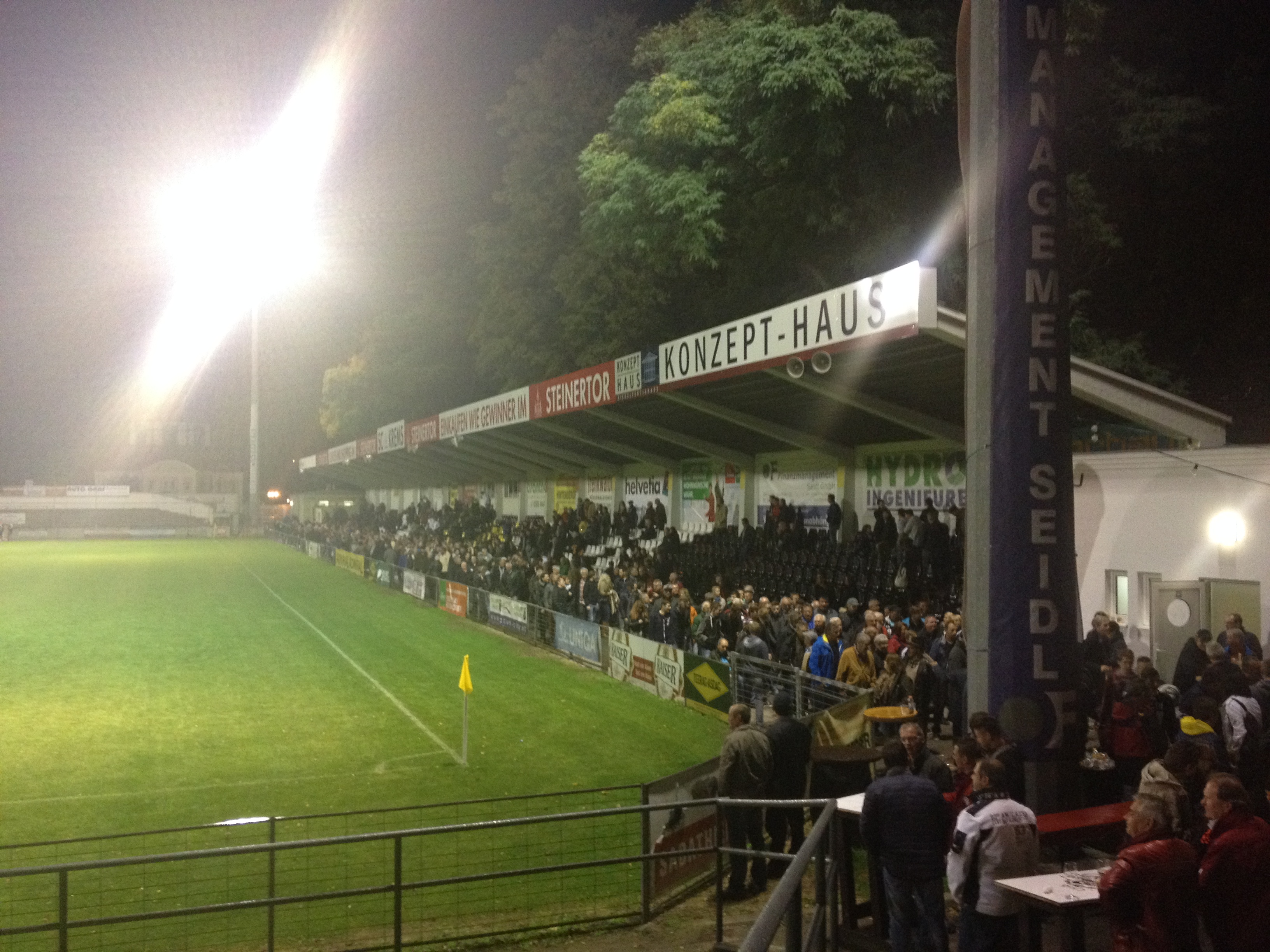 The mainstand